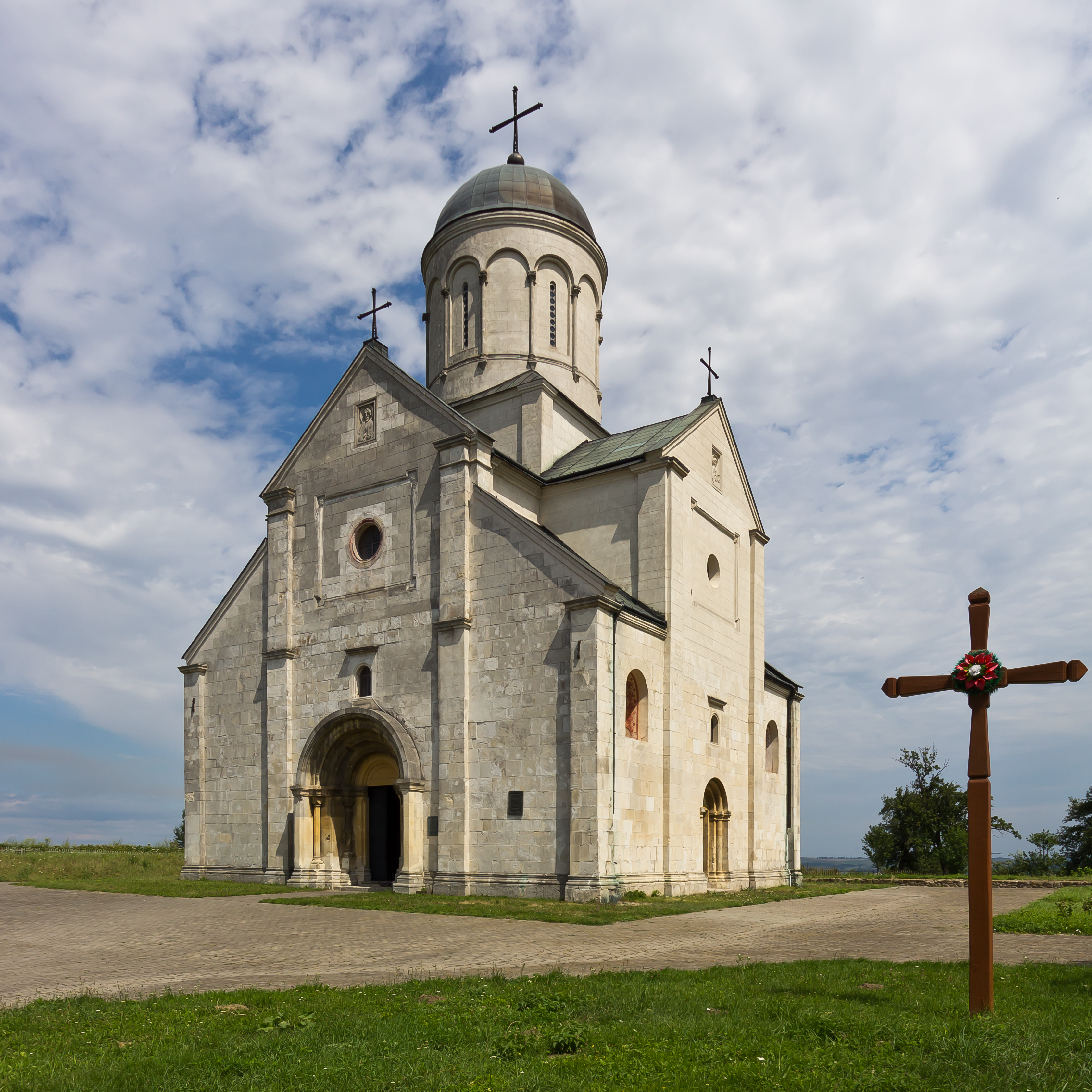 Saint Panteleimon Church, Shevchenkove, Halych Raion, Ukraine